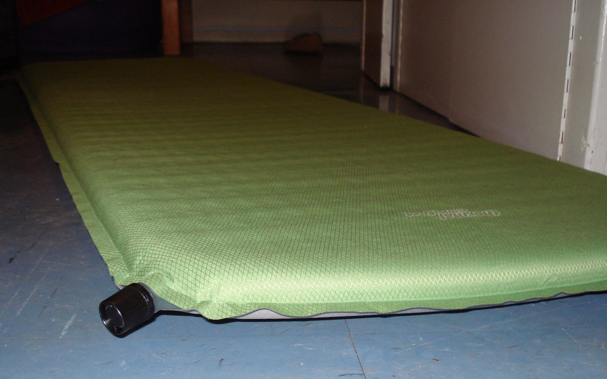 Self-inflating mattress, Self inflating mat, camping mat, camping mattress, hiking mattress, hiking mat.